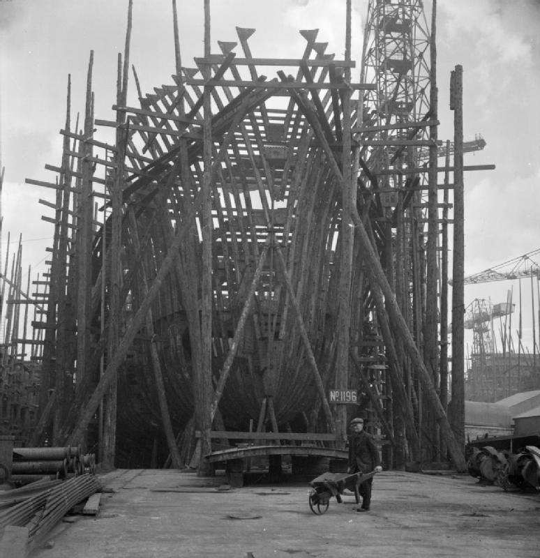 Glasgow Shipyard- Shipbuilding in Wartime, Glasgow, Lanarkshire, Scotland, UK, 1944 A striking photograph of a ship 'skeleton', surrounded by timber scaffolding at a Clydeside shipyard, Glasgow. A shipworker can be seen pushing a wheelbarrow in the foreground, illustrating the size of the vessel.